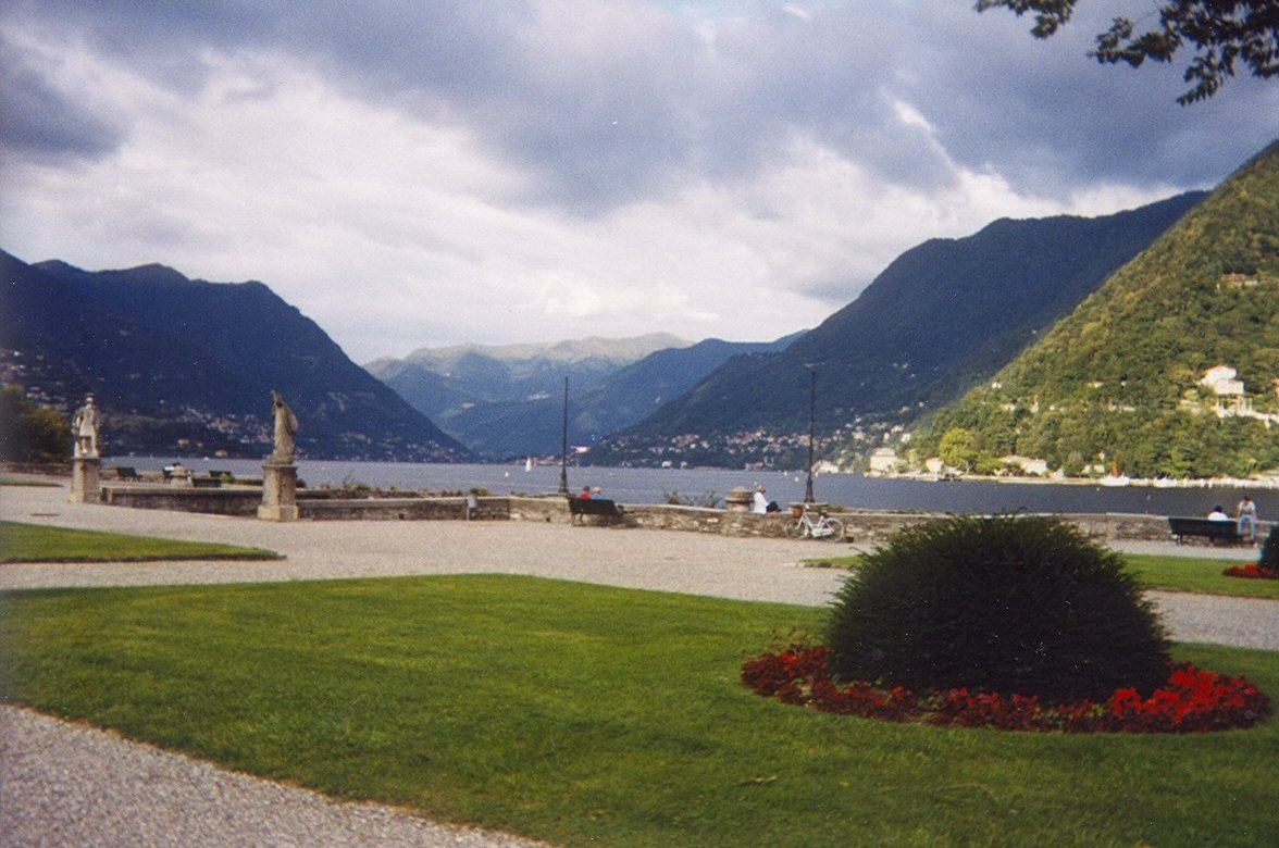 Como, Italia-- outskirts of town with view of lake Photo by Infrogmation, 1999